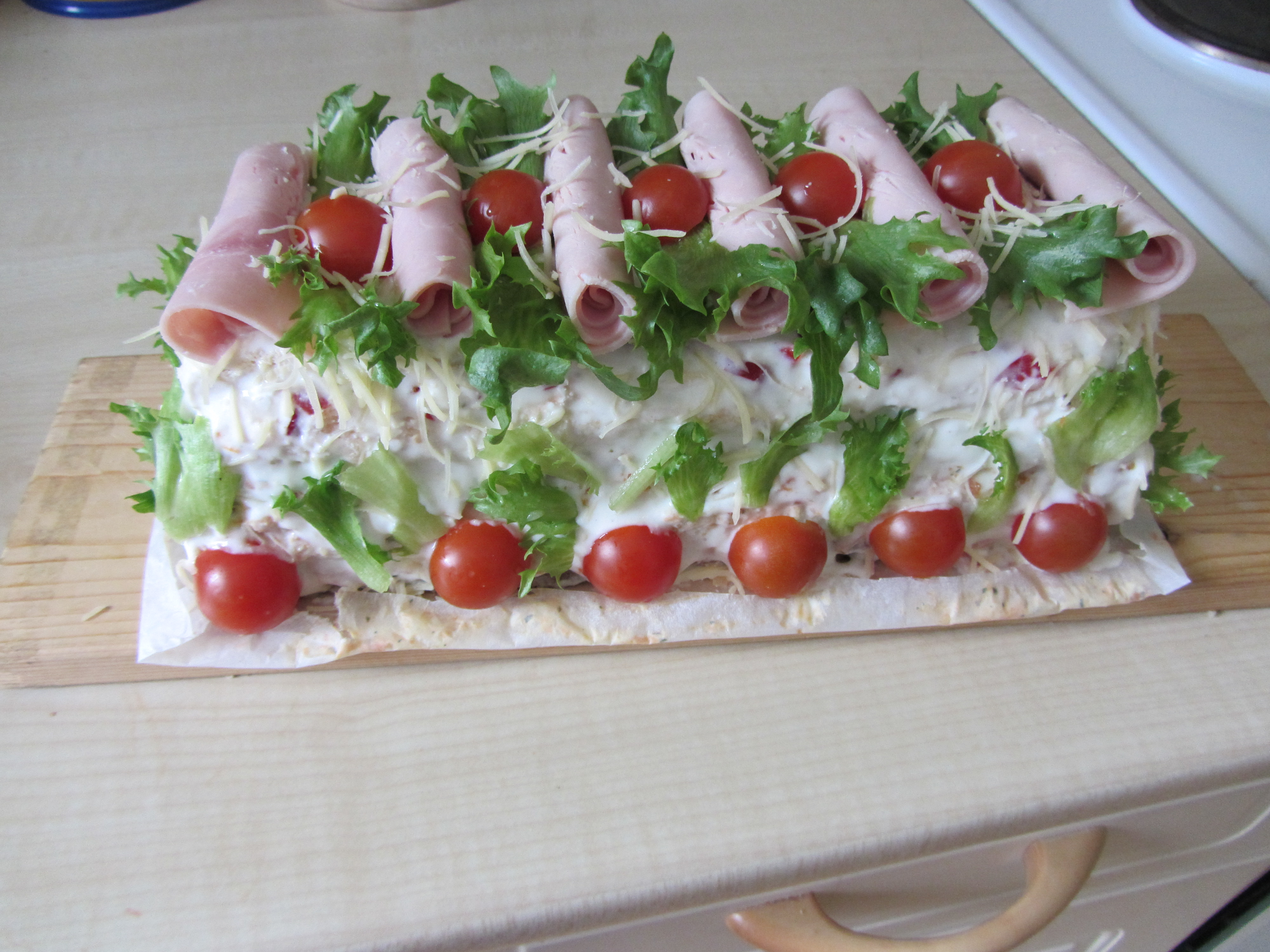 Sandwich cake made of two kinds of bread and two kinds of filling.